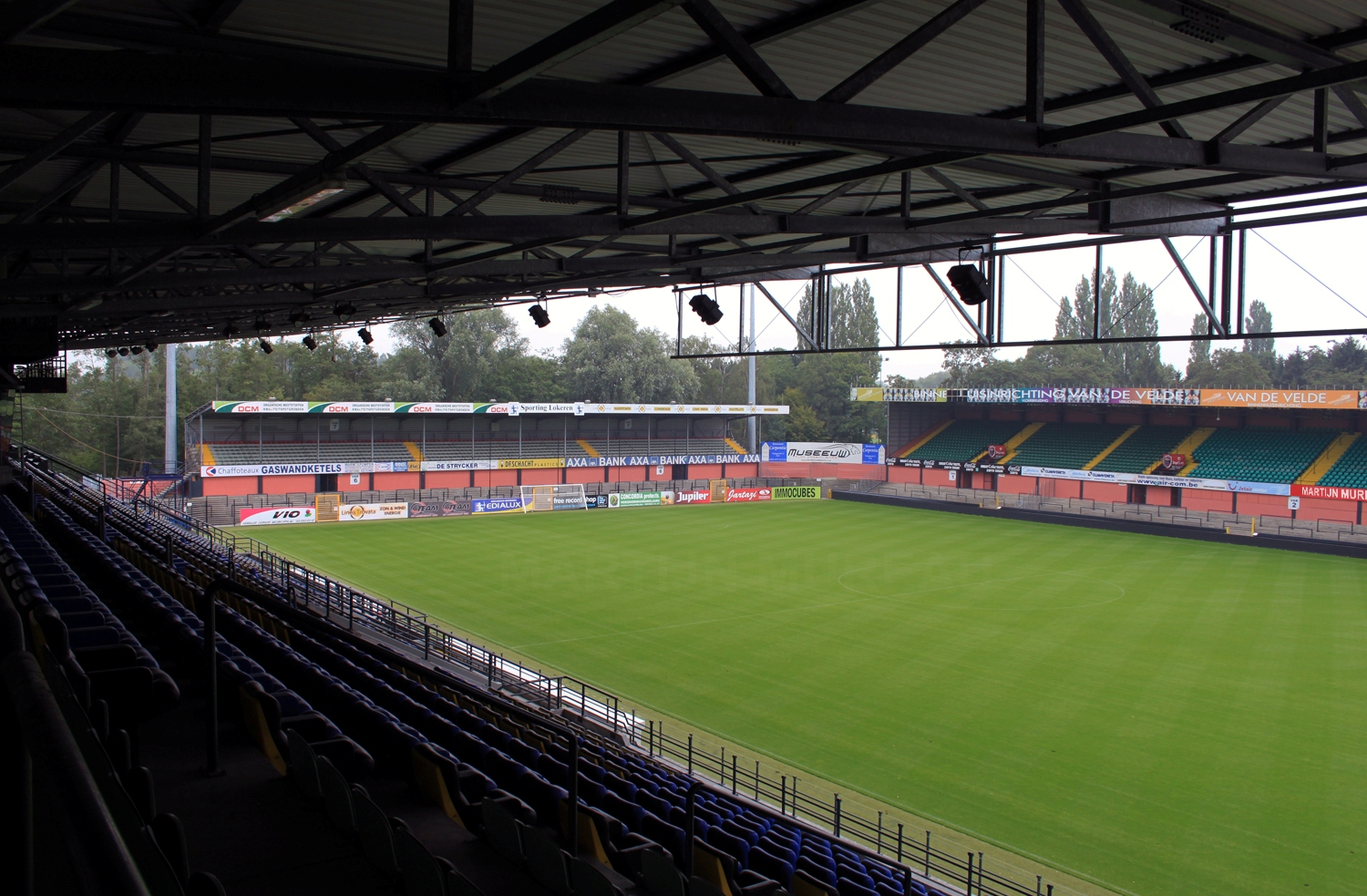 Picture of the Daknam Stadium in Lokeren, made in 2011